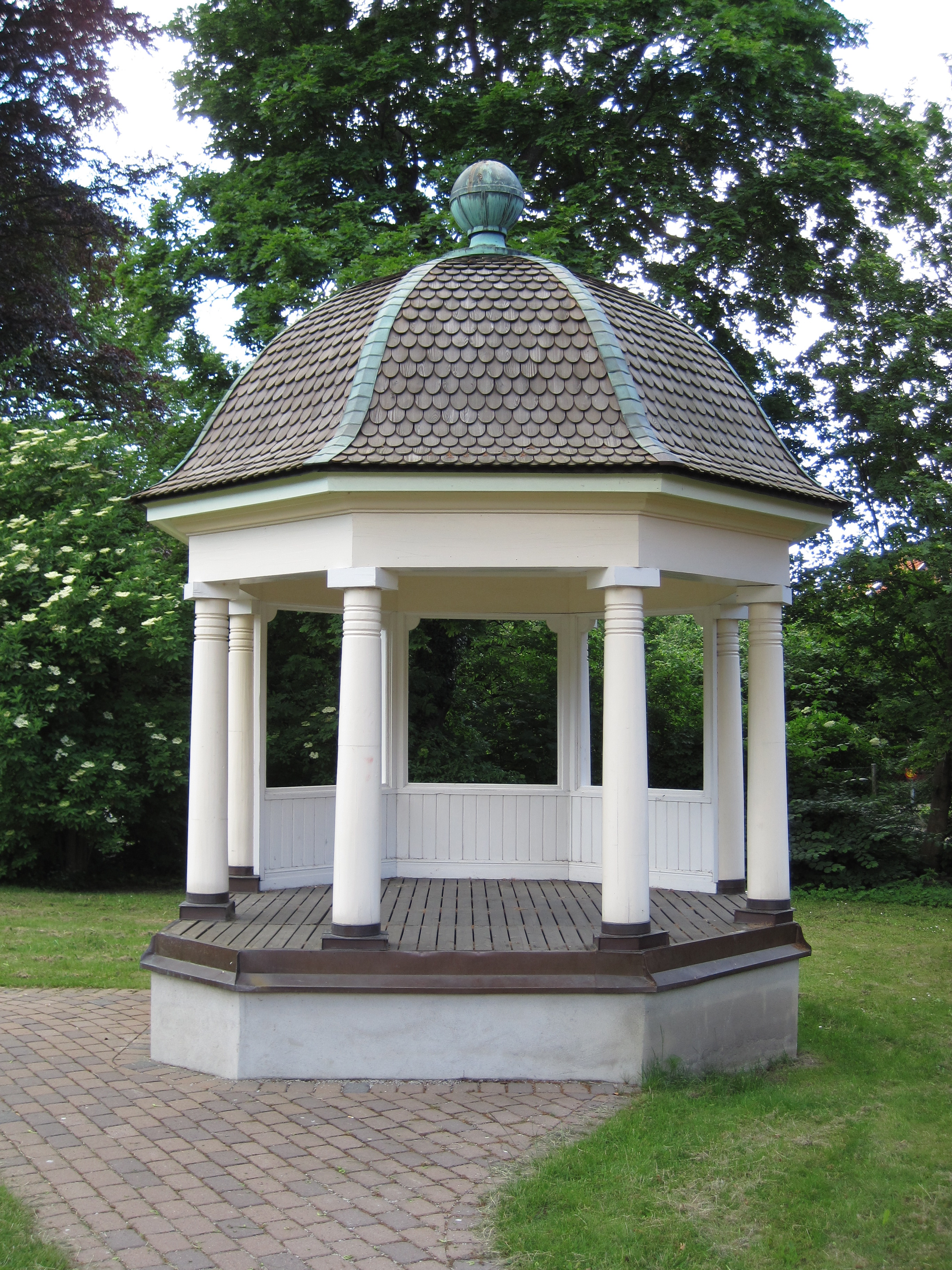 Late 19th century pavilion in the garden of Åke Hans, a famous former restaurant in Lund, Sweden.